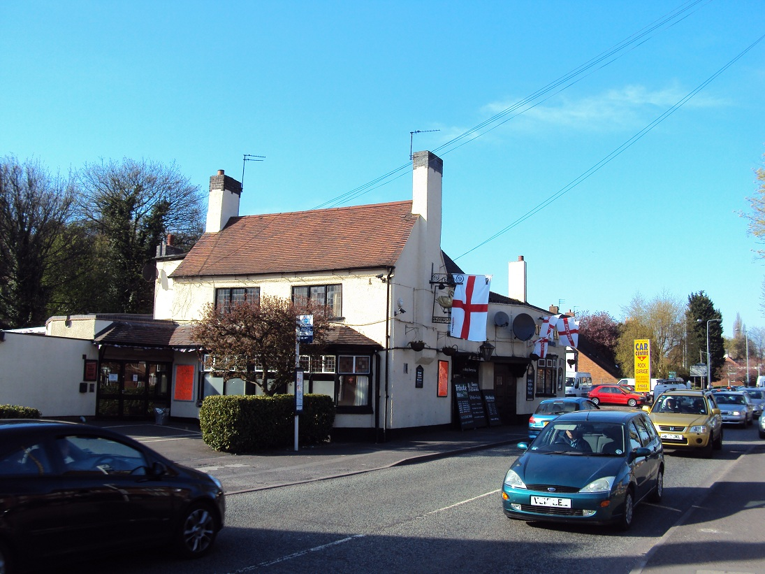 The Swan Hotel situated on Lower Street, Tettenhall. Originally an old coaching inn, & one of Wolverhampton's oldest pubs.